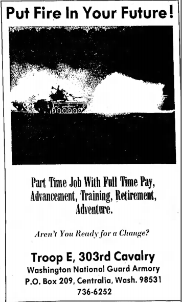 A recruiting advertisement for Troop E, 303rd Cavalry, Washington Army National Guard in the local Centralia Daily Chronicle newspaper